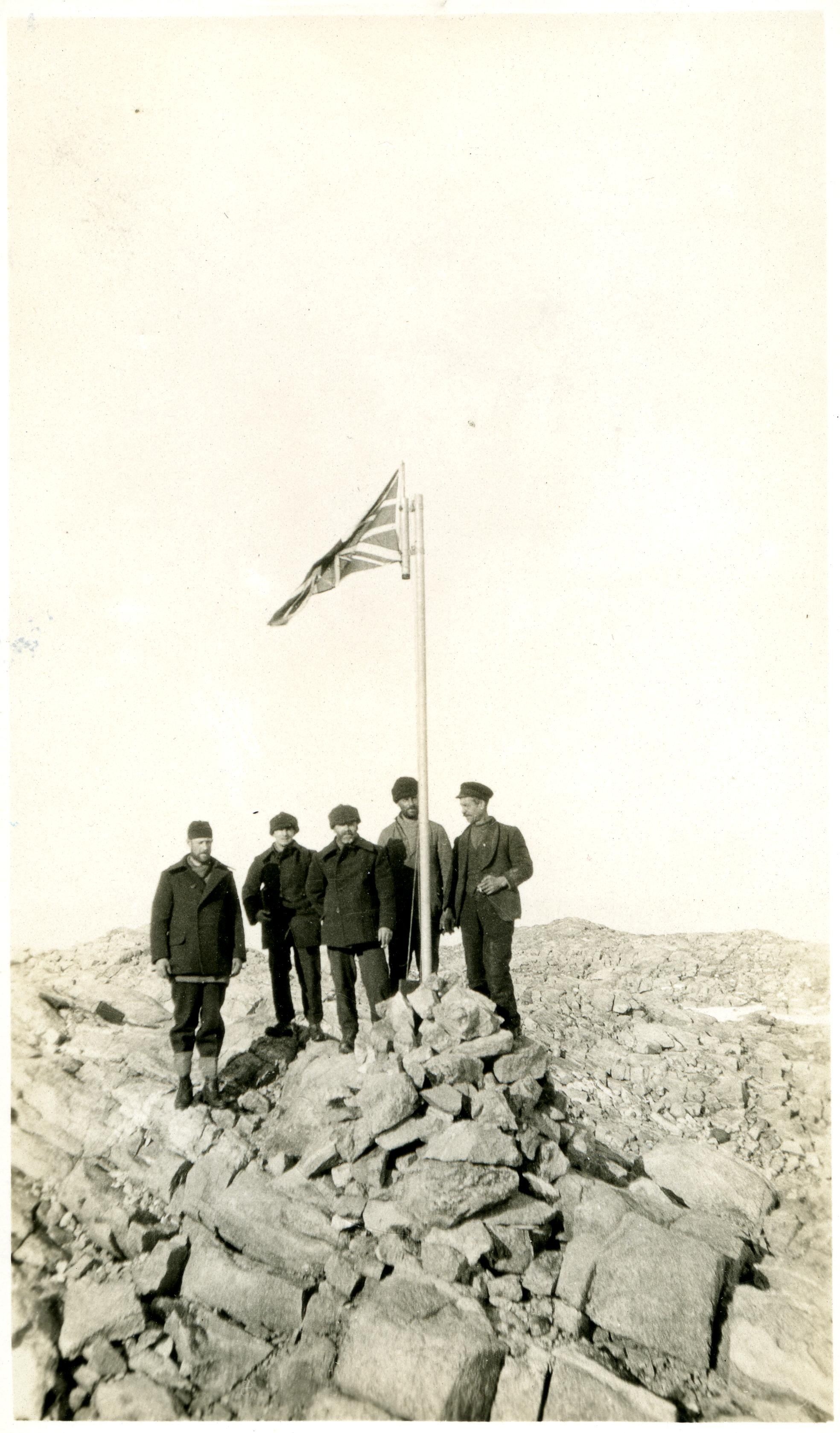 This photo was taken on 5 January 1931 by William E Howard, during the Second BANZARE voyage. This photo is held by the University of Newcastle Library's Cultural Collections (Australia).